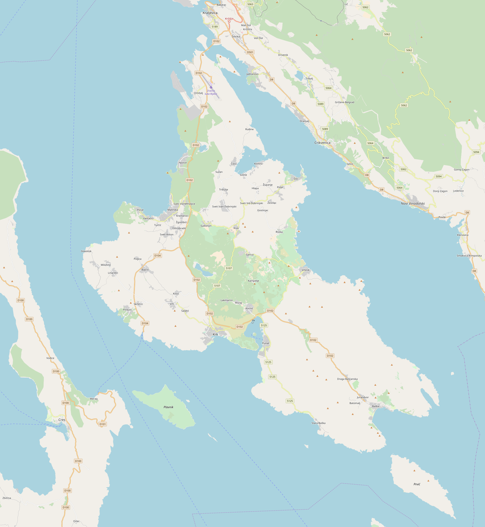 Map of Krk, Croatia Geographic limits of the map: N: 45.283° S: 44.905° W: 14.363° E: 14.868°